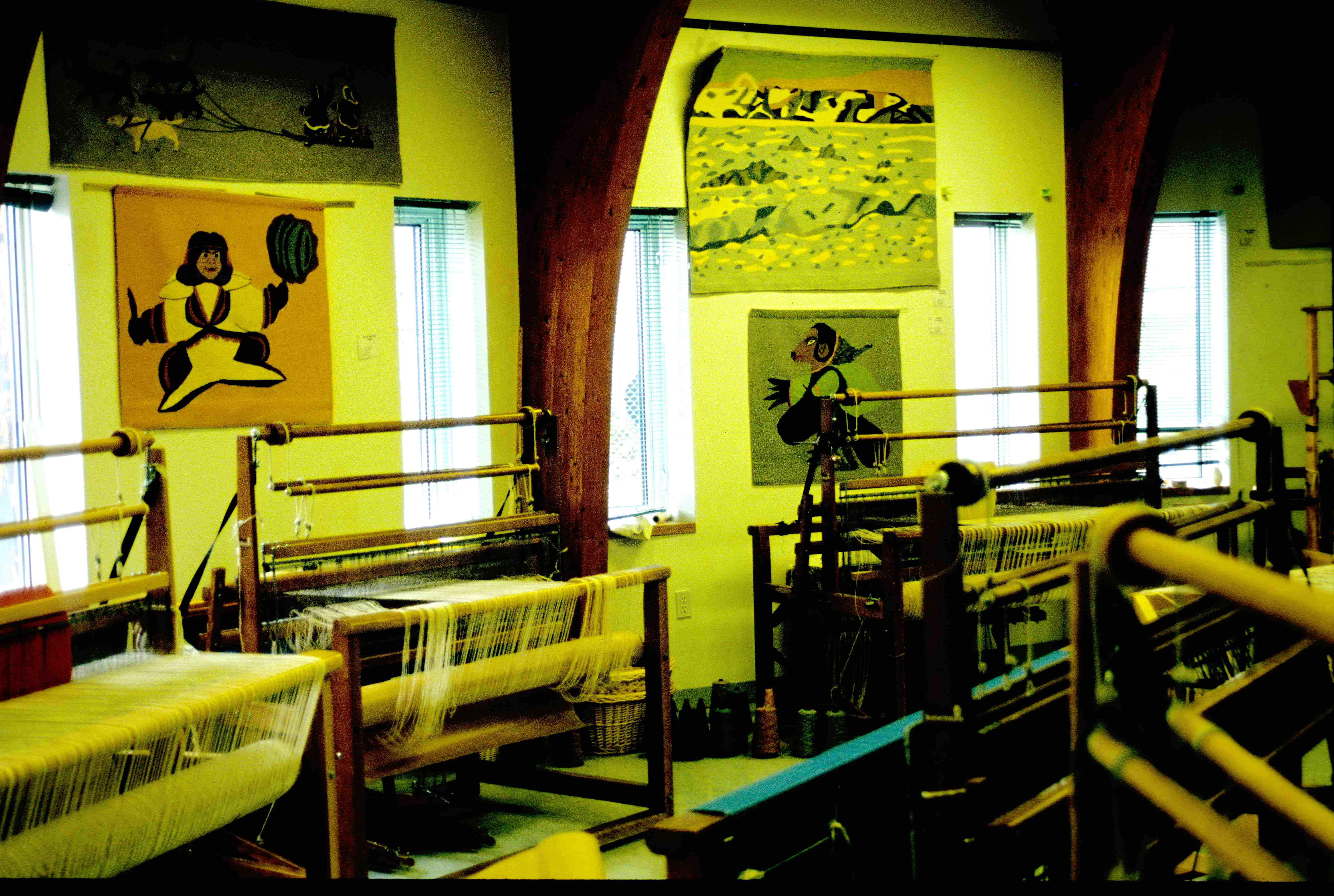 Tapestry Studio in Uqqurmiut Centre for Arts and Crafts Pangnirtung (Panniqtuuq)